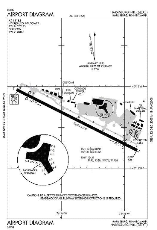 FAA diagram of Harrisburg International Airport (MDT) in Harrisburg, Pennsylvania. Note: this URL changes monthly; the airport article should contain a link to the current FAA diagram. Produced by the National Aeronautical Charting Office (NACO), a department of the Federal Aviation Administration (FAA).